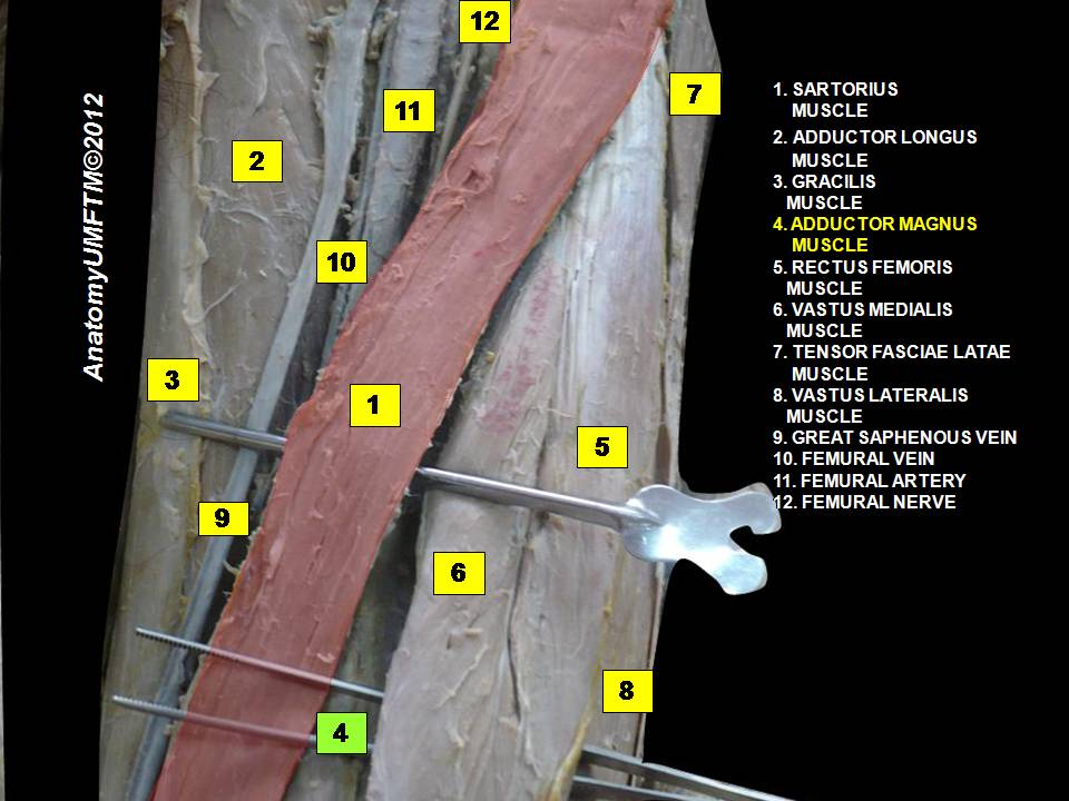 Anatomical dissections